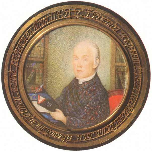 Semyon Ivanovich Gamaleya